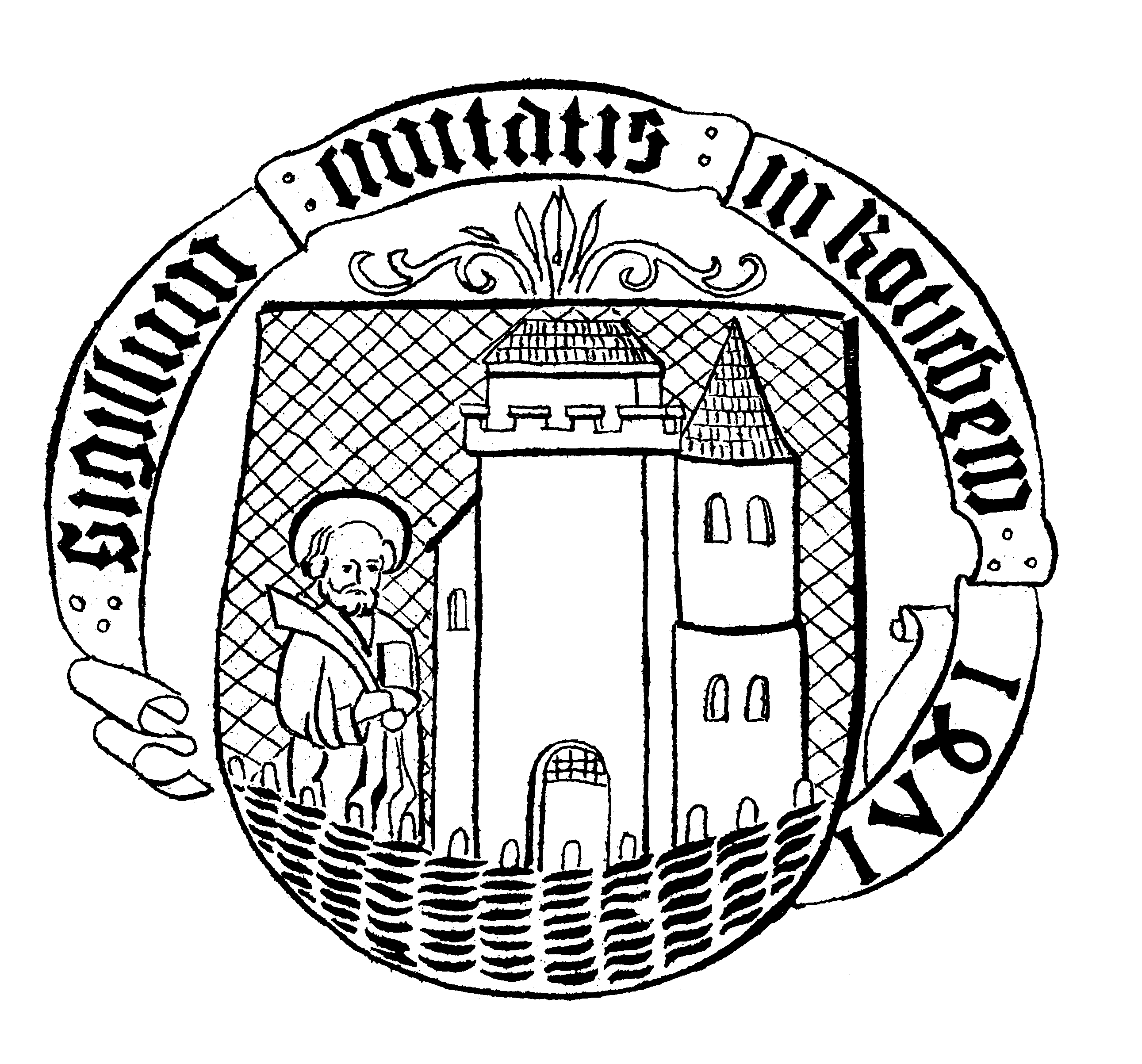 Old seal of the city of Gottschee from 1471